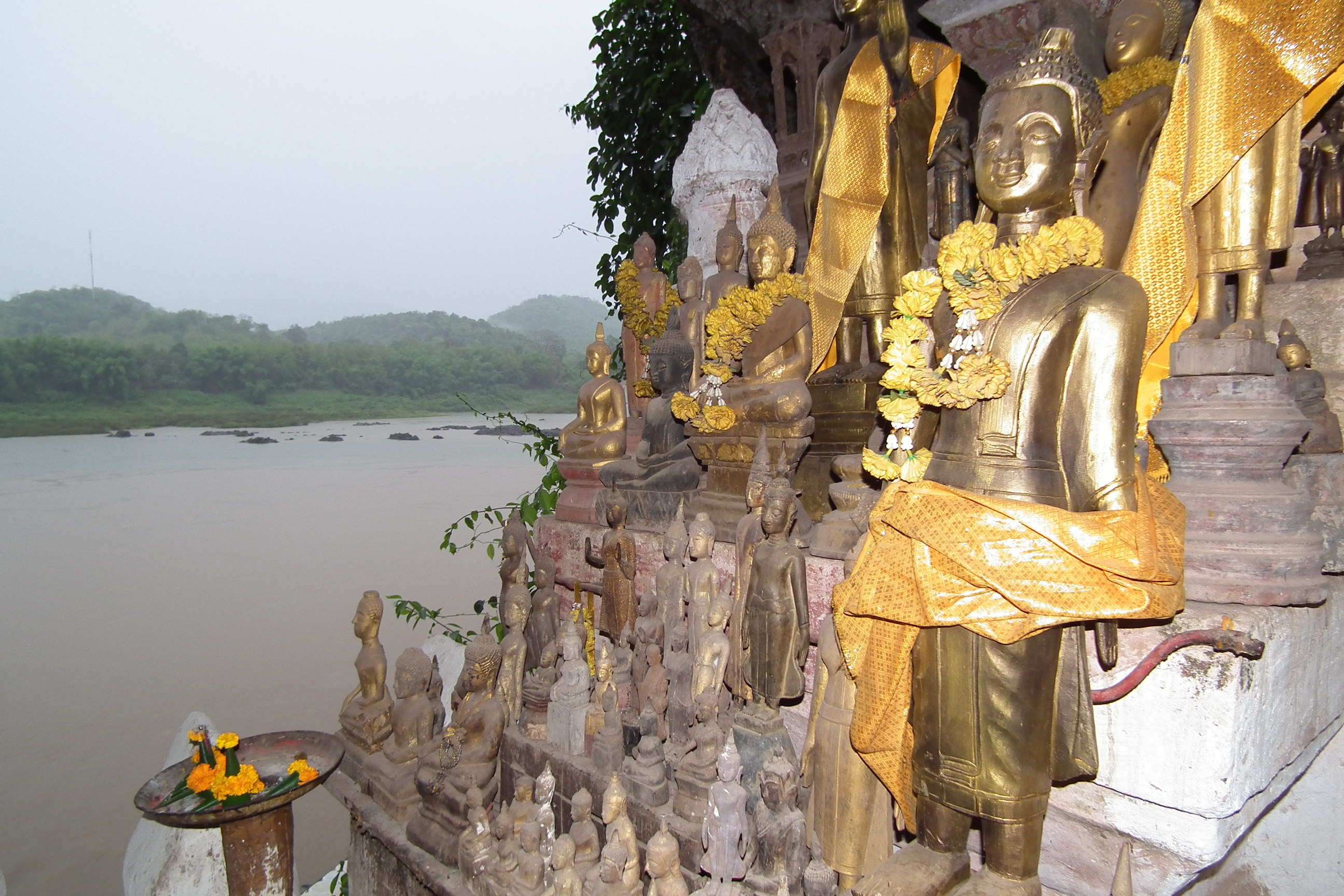 Near Pak Ou (mouth of the Ou river) the Tham Ting (lower cave) and the Tham Theung (upper cave) are caves overlooking the Mekong River 25 km from Luang Prabang, Laos. They are a group of caves on the left side of the Mekong river, about two hours upstream from the centre of Luang Prabang, and have become well known by tourists. The caves are noted for their miniature Buddha sculptures. Hundreds of very small and mostly damaged wooden Buddhist figures are laid out over the wall shelves. They take many different positions, including meditation, teaching, peace, rain, and reclining (nirvana). Pak_Ou_Caves